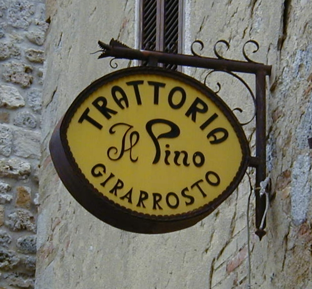 Italian Trattoria sign. This photo was taken somewhere in Tuscany, the exact location of the depicted sign is no longer known to the author.